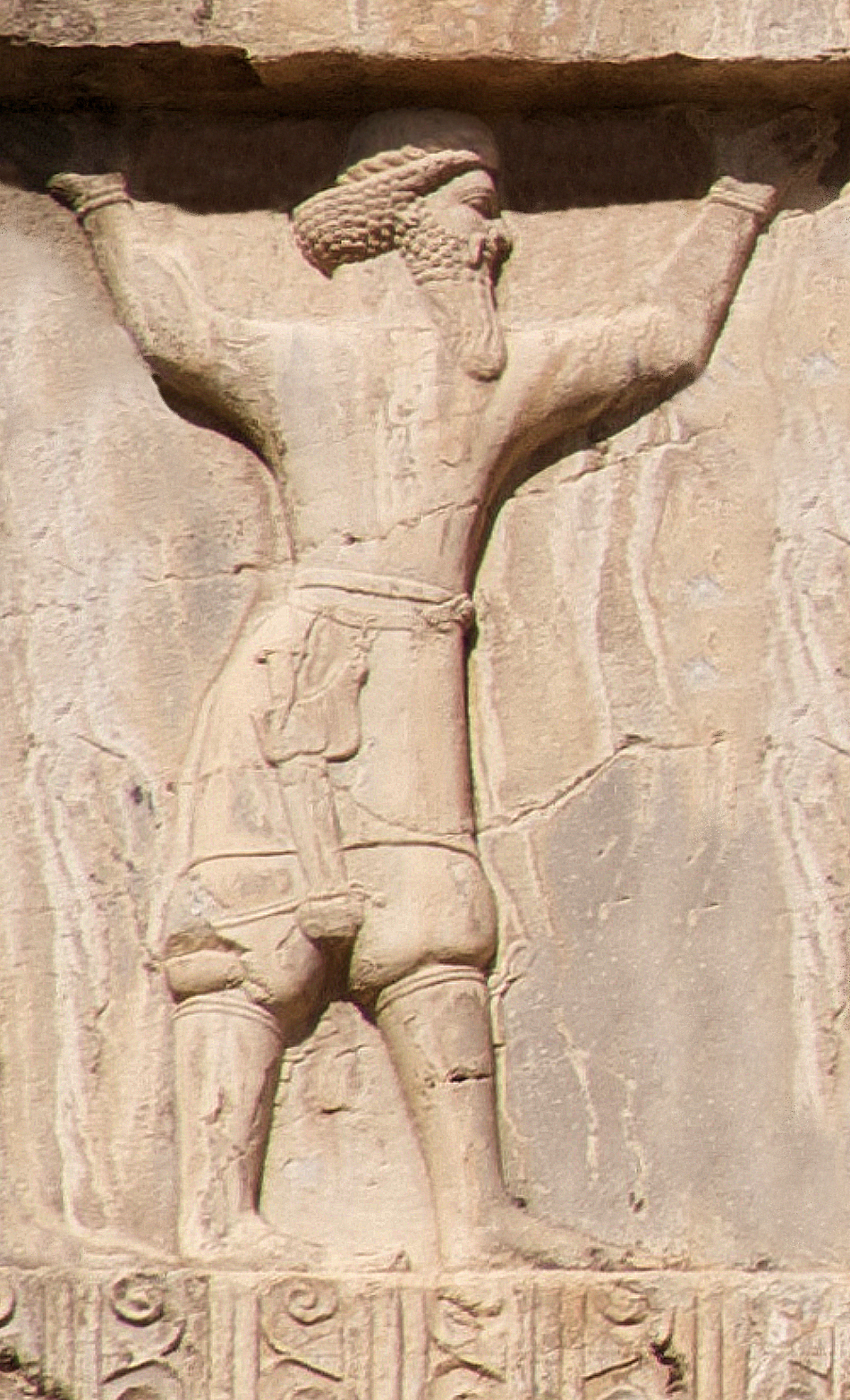 Xerxes I tomb Zarangian soldier circa 470 BCE